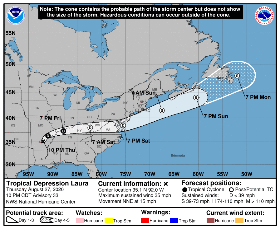 National Hurricane Center's 5-day track and intensity forecast cone of Atlantic AL132020 Tropical Depression Thirteen.